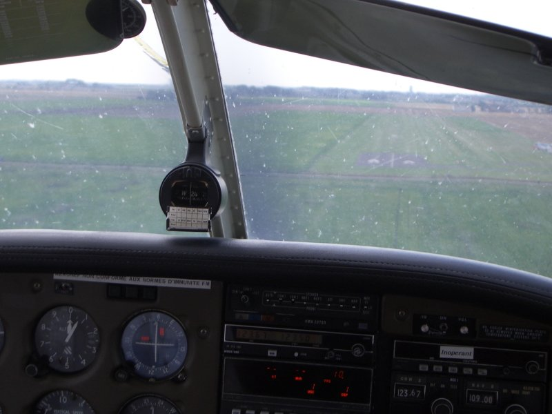 Landing runway 25 at "Dunkerque Les Moëres" airport